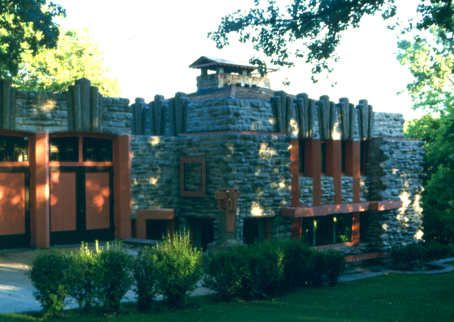 photo by Einar Einarsson Kvaran for Walter Burley Griffin and perhaps Mason City, Iowa